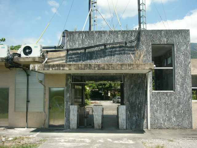 Sikou Station is a railway station of Tai-Tung Line,located in Shoufong Township,Hualien County,Taiwan.